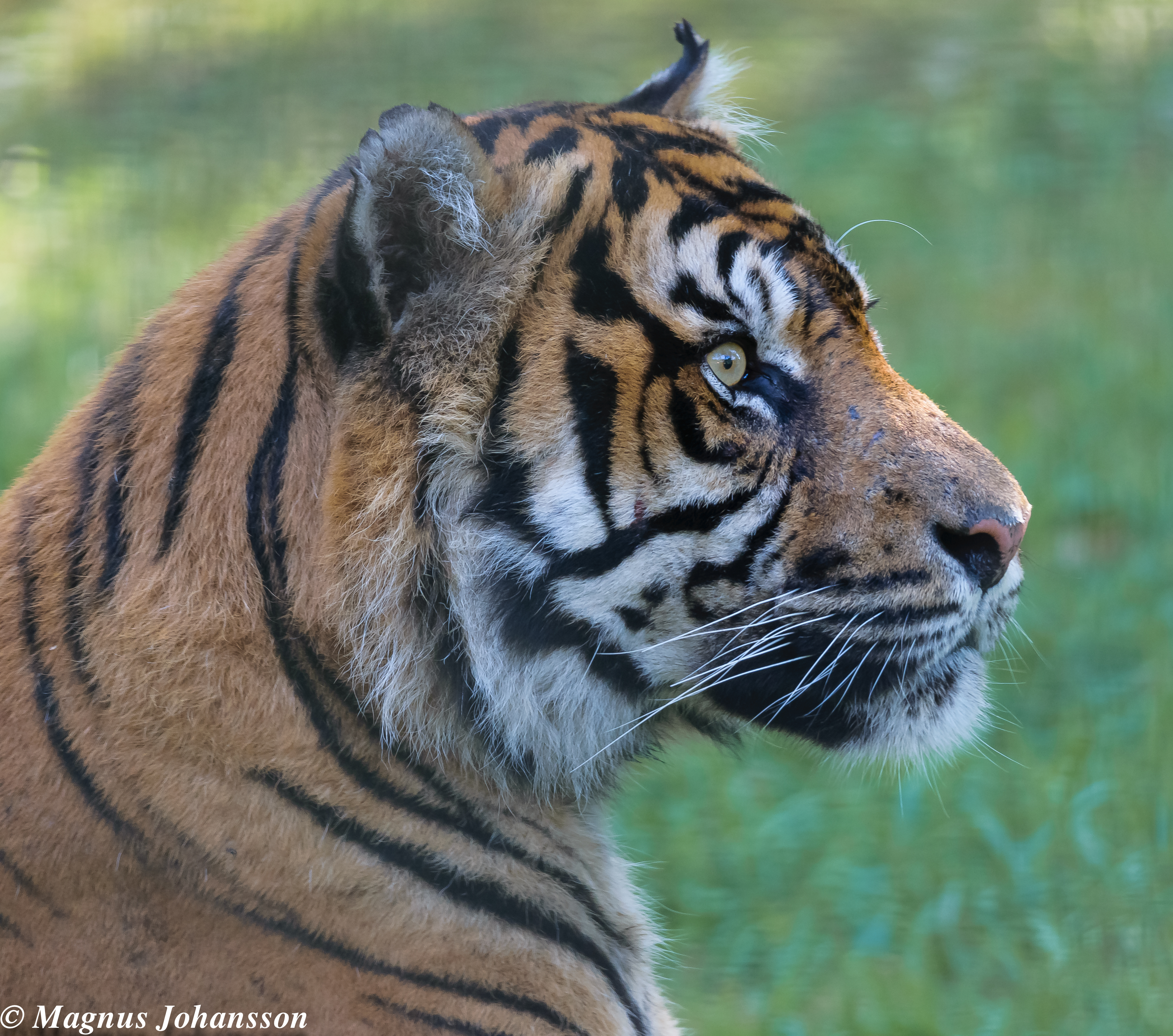 This in a Indian Tiger